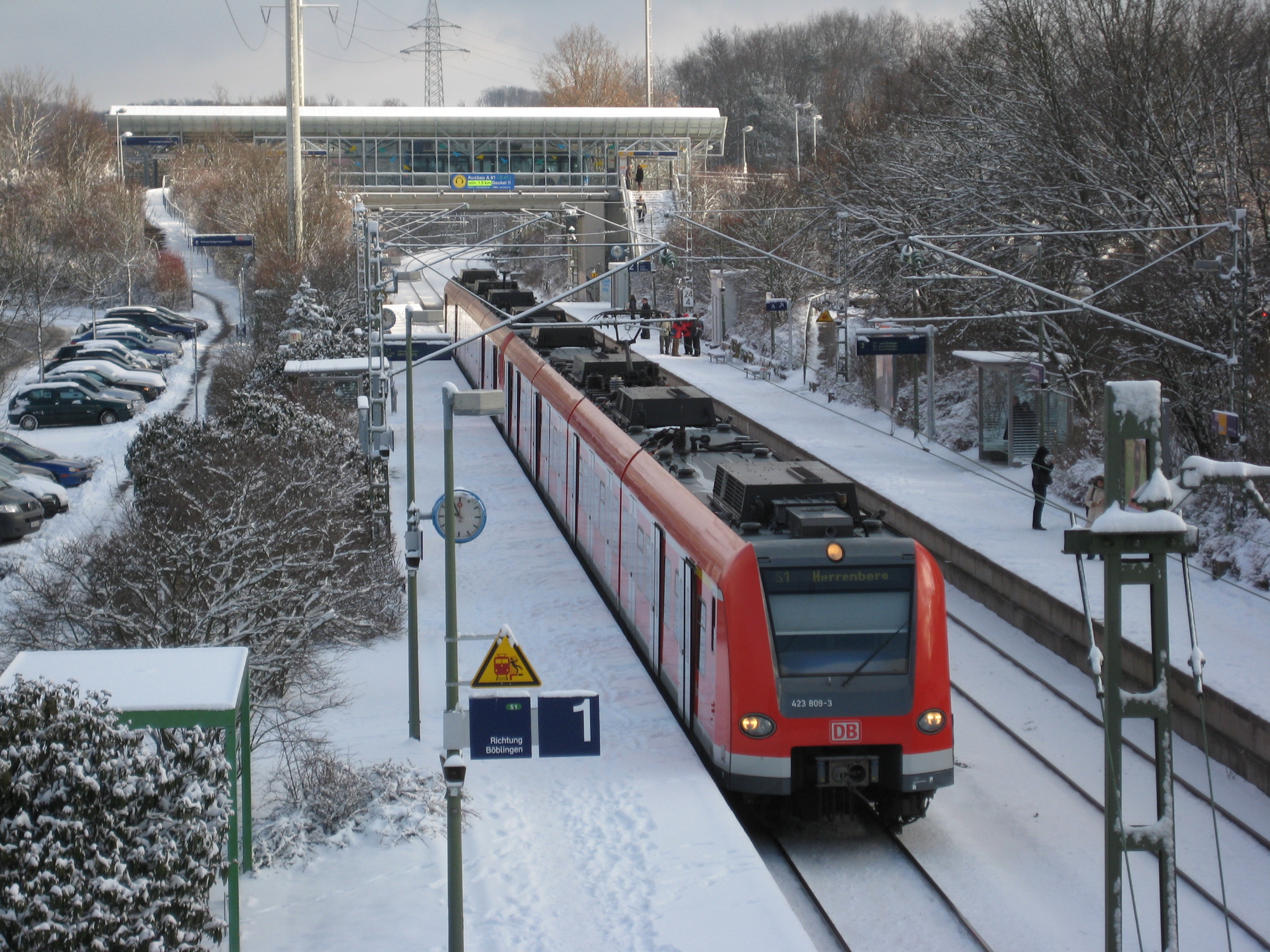 Electric multiple unit in the station Goldberg, Böblingen, Germany